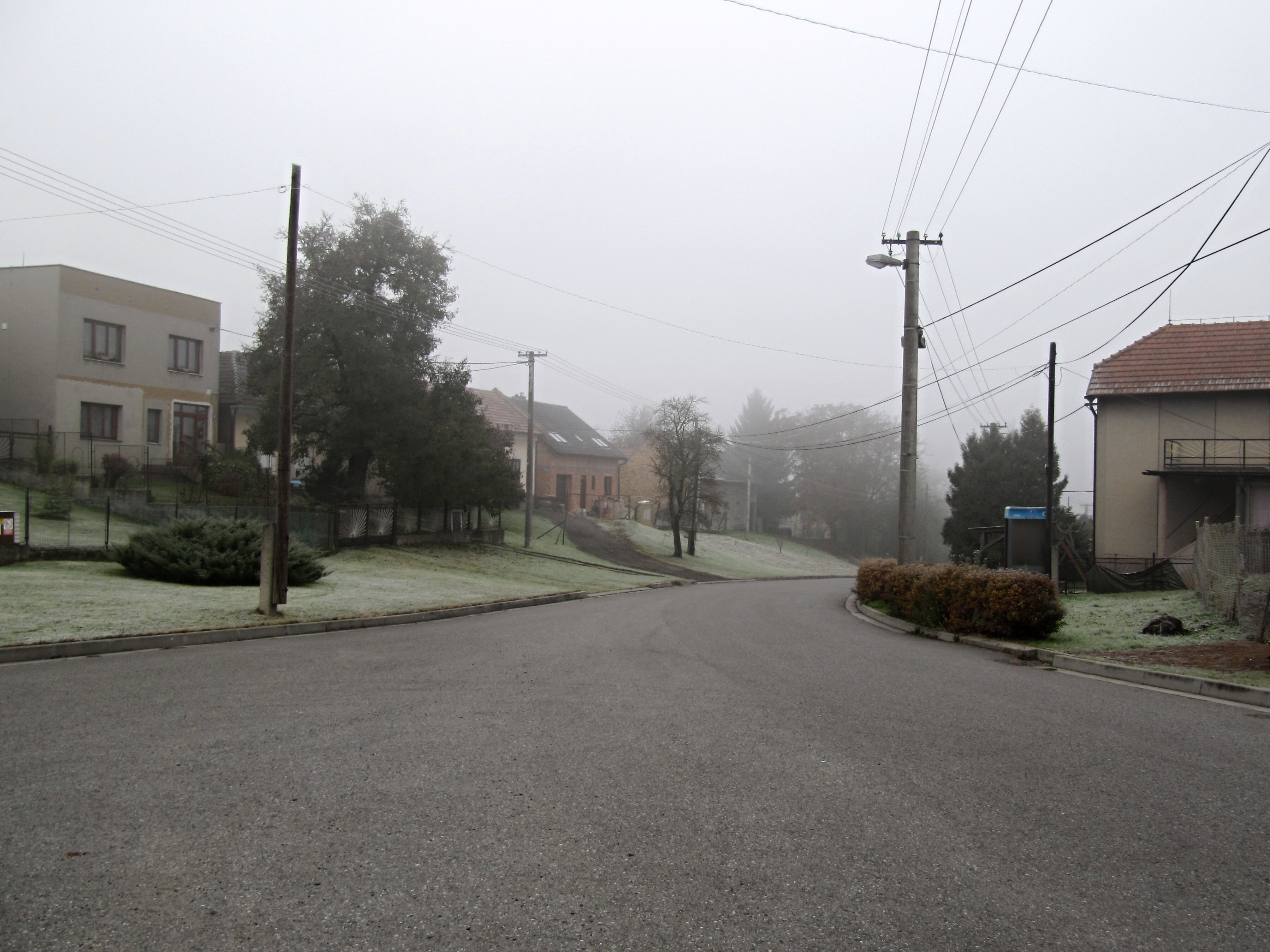 Vrbka in Kroměříž District, Czech Republic. Common.